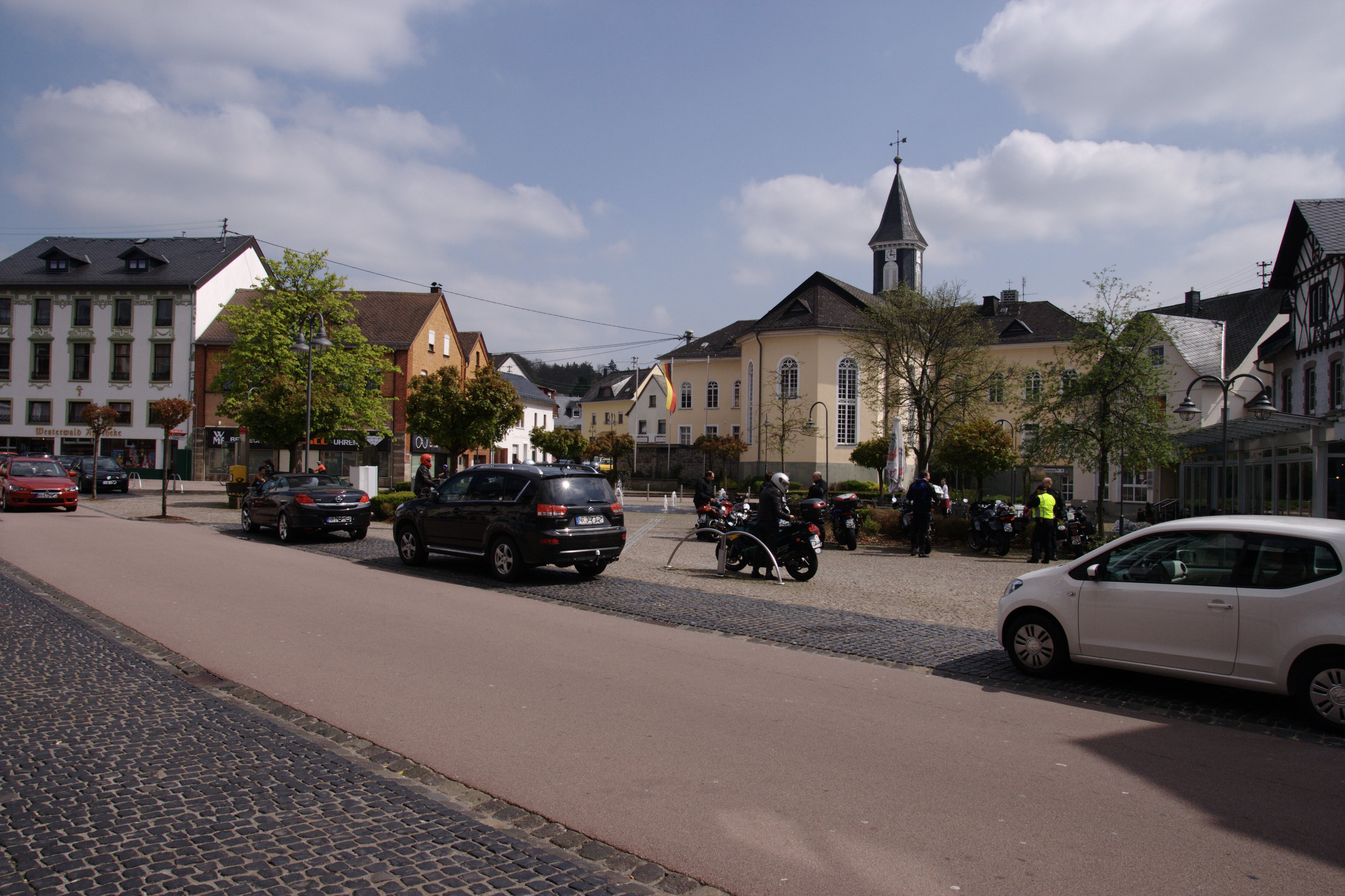 Town Selters, Westerwald, Germany. Market Square as seen form Rheinstraße road. In the background: Protestant church, errected approx. 1830